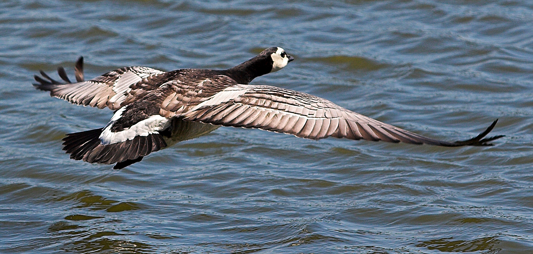 Branta Leucopsis in flight. Photo by Thermos. Many thanks for user MPF for identifying the bird.